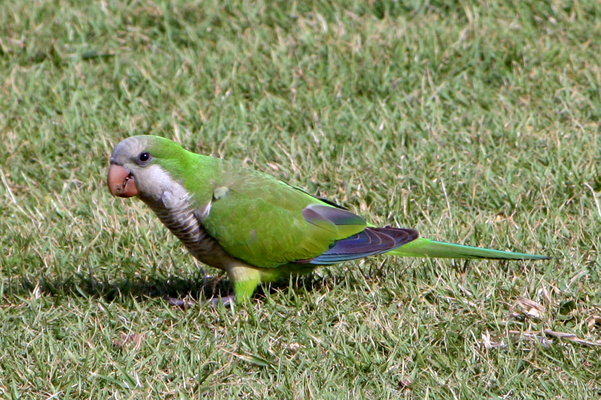 Monk Parakeet (Myiopsitta monachus) Old San Juan, Puerto Rico.